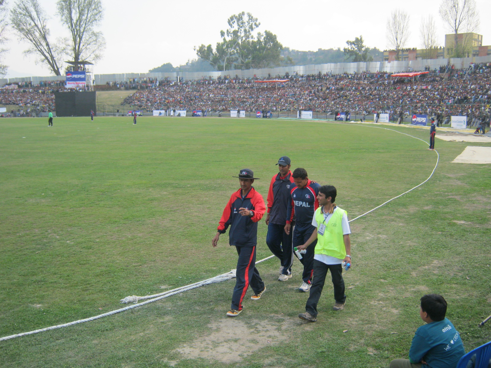 Sanjam Regmi, a Nepali Cricketer during ACC Twenty20 Cricket 2013.